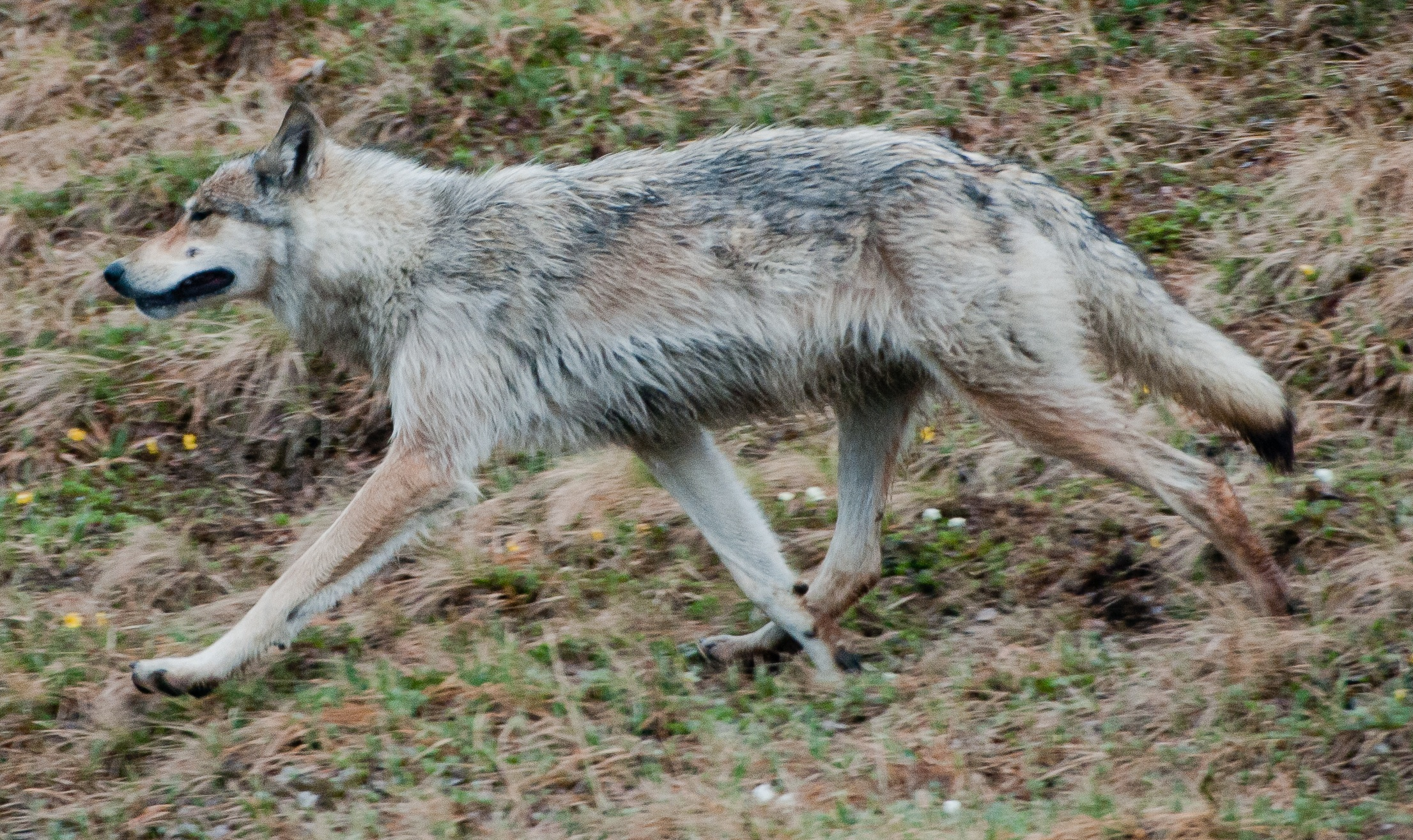 Wolf in Denali National Park, photo by Ken Miller